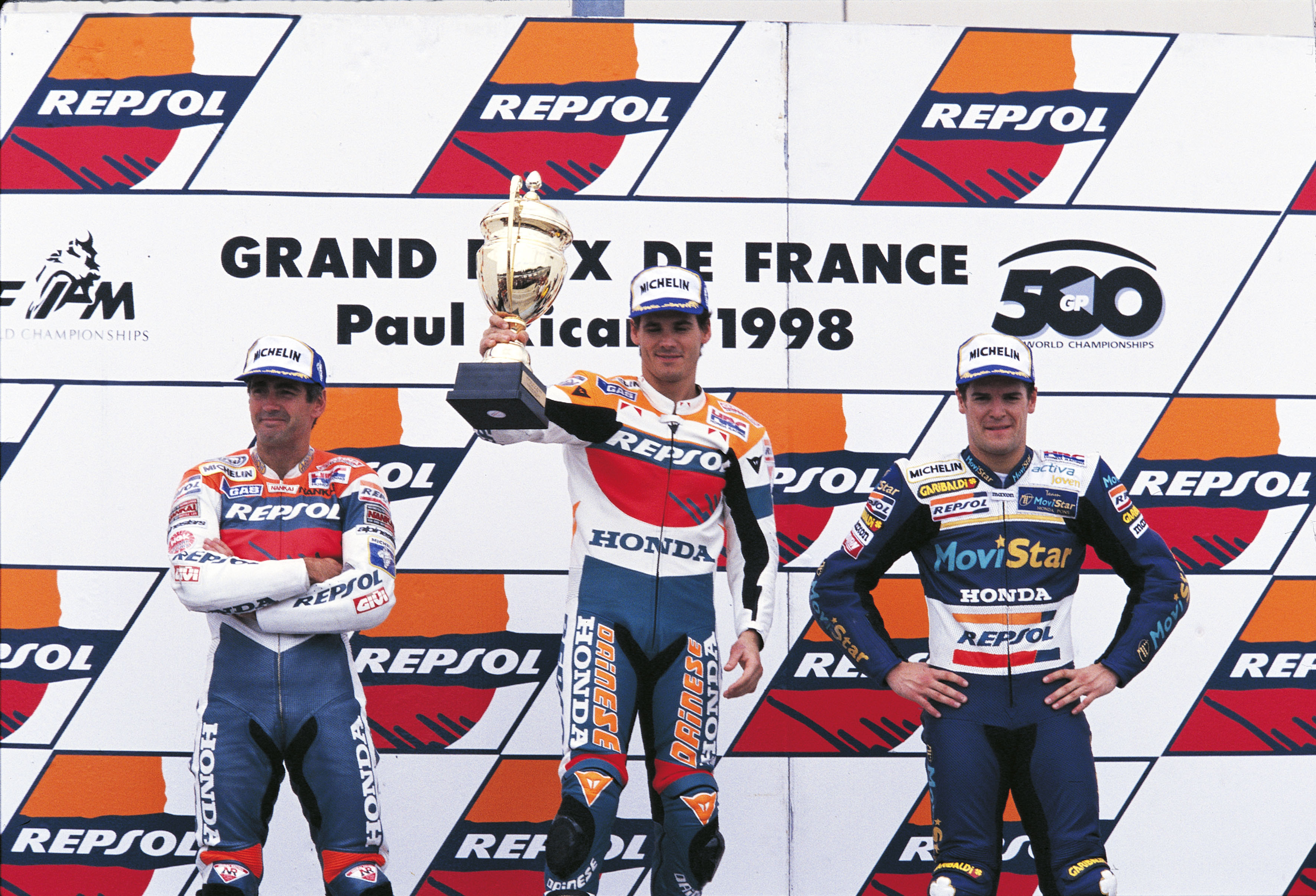 Alex Crivillé on the top step of the podium at Paul Ricard (France), alongside Doohan and Checa. However, this was not just any victory: For the first time he led the premier class standings.